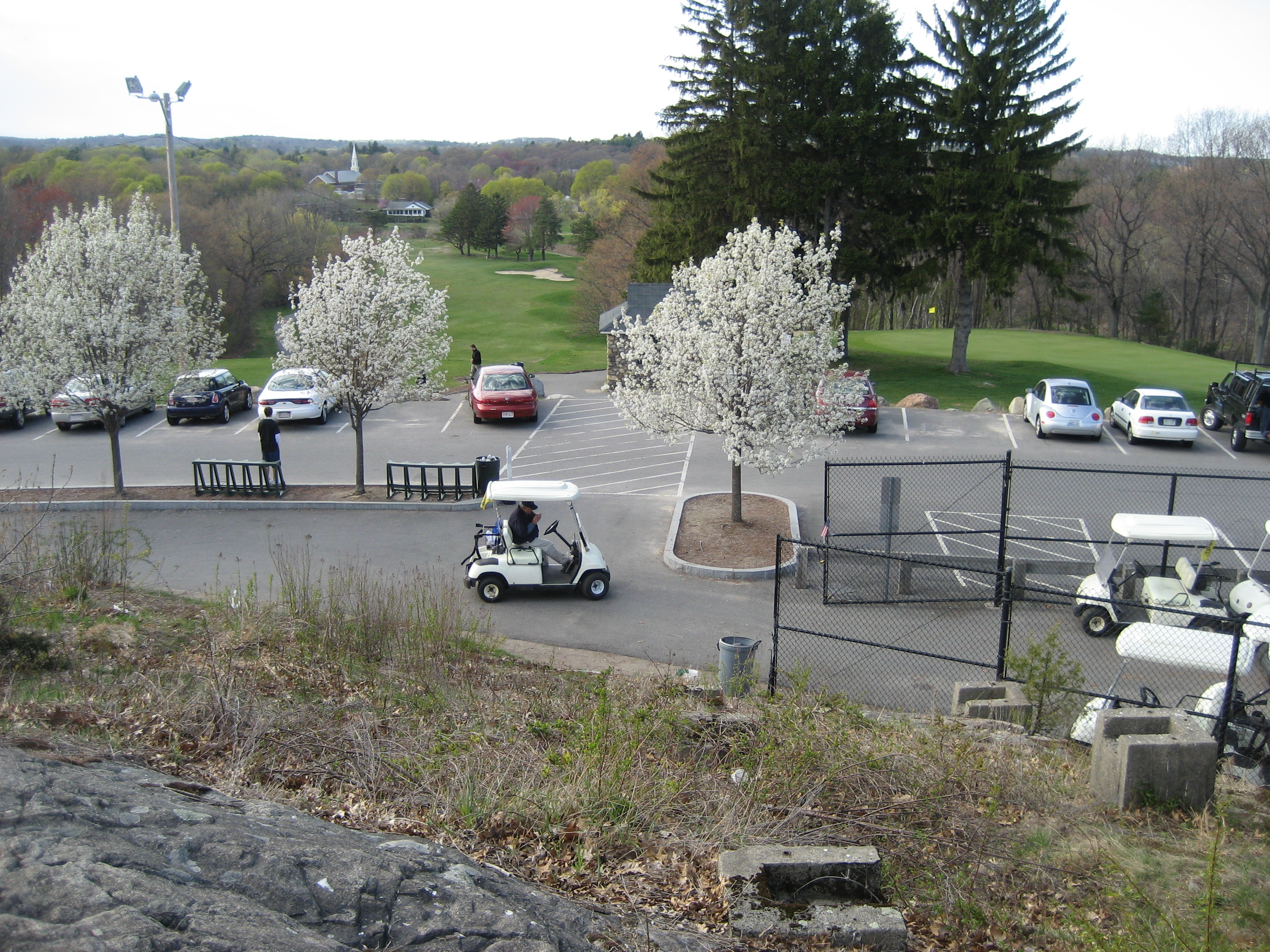 Remnants of the ski jump at mount hood with the slope in the background